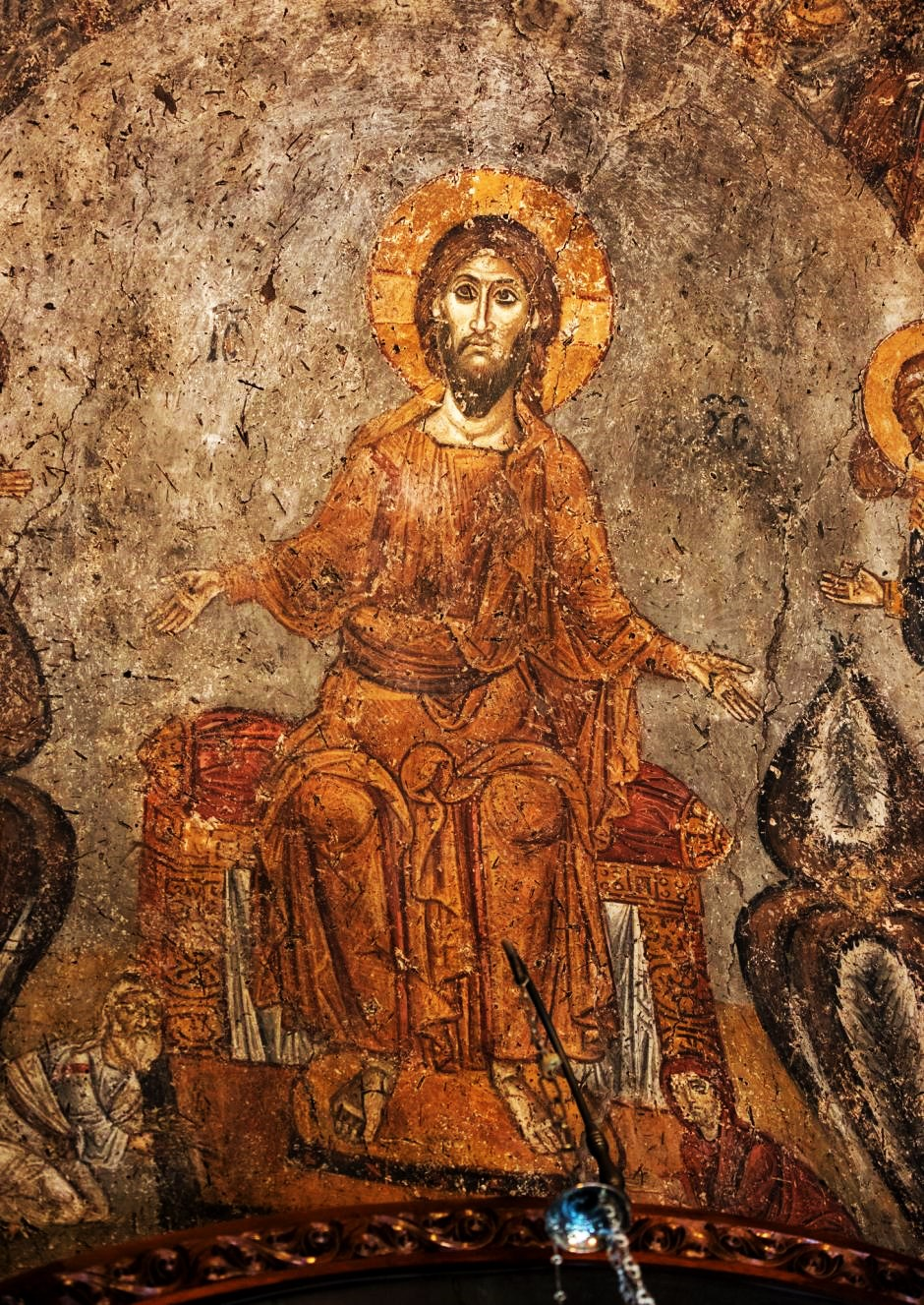 Panagia Halkeon Fresco 01